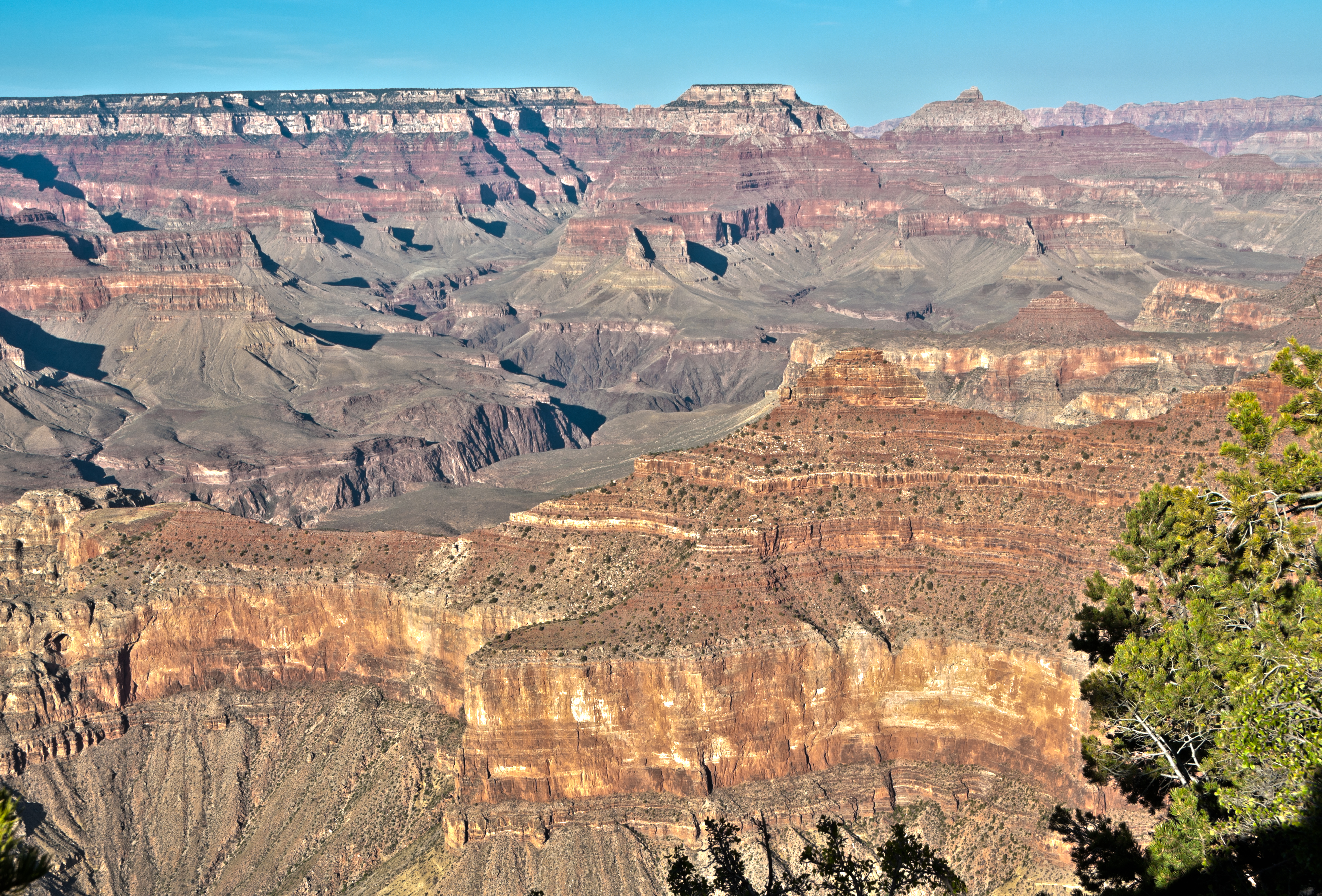 The Rim Trail, just east of Yavapai Point on the South Rim of the Grand Canyon before sunset taken in late April. HDR image of 3 exposures 2 stops apart.